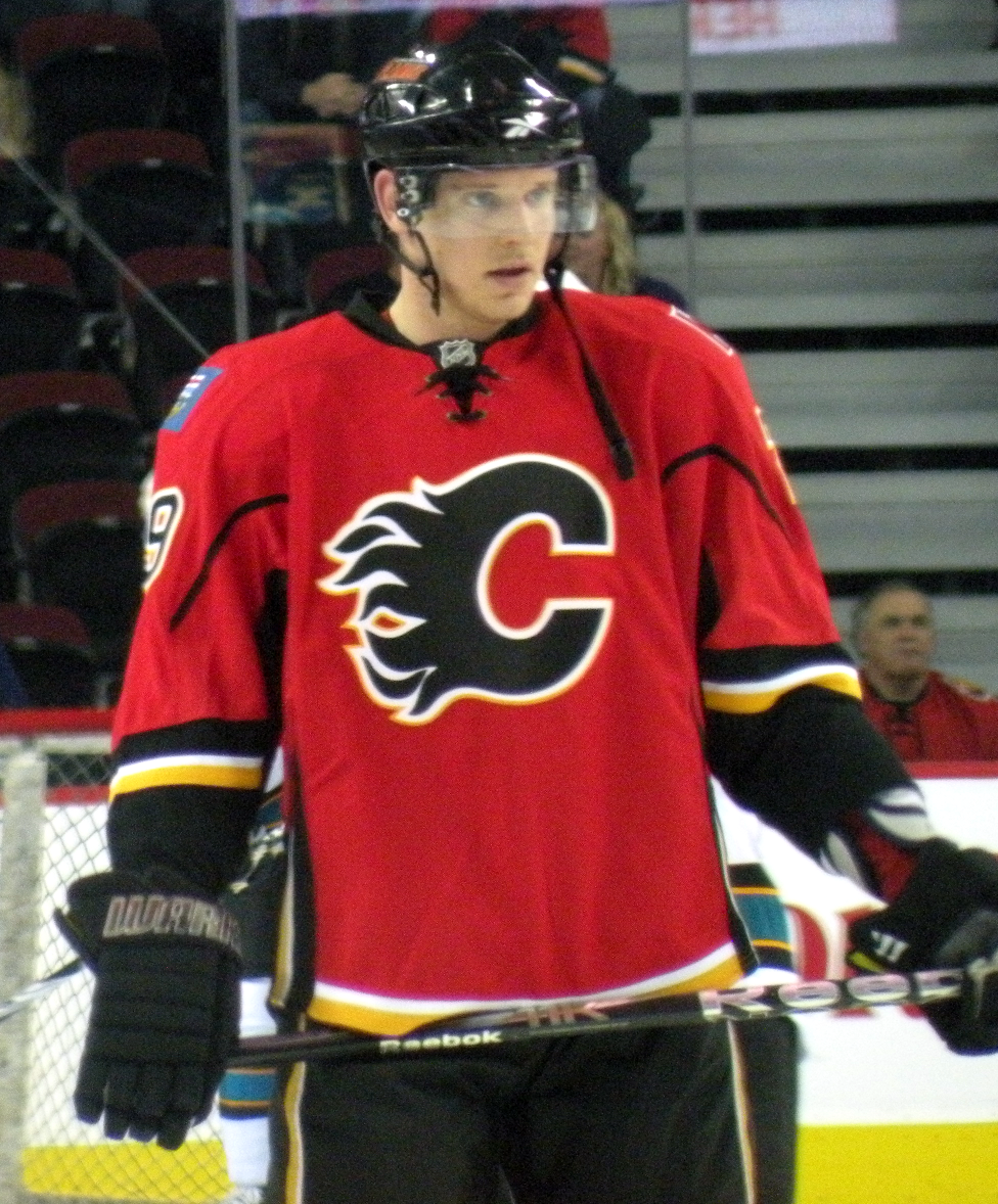 Calgary Flames defenceman Brendan Mikkelson prior to a National Hockey League game against the San Jose Sharks.